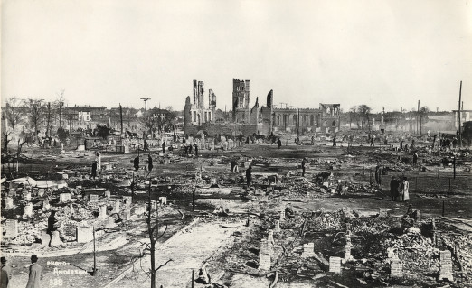 The aftermath of a fire that swept through the north side (Fifth Ward) following the Mardi Gras parade of 1912. The wall remnants rising from the ruins are part of the St. Patrick's Catholic Church and parochial school buildings.